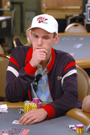 Allen Cunningham in 2006 World Series of Poker - Rio Las Vegas.